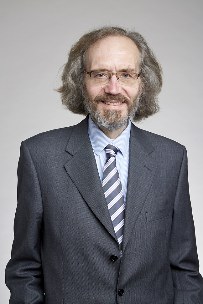 Roger Lee Williams FRS FMedSci is a structural biologist and group leader at the Medical Research Council (MRC) Laboratory of Molecular Biology at the University of Cambridge. His group studies the form and flexibility of protein complexes that associate with and modify lipid cell membranes Attribution: The Royal Society